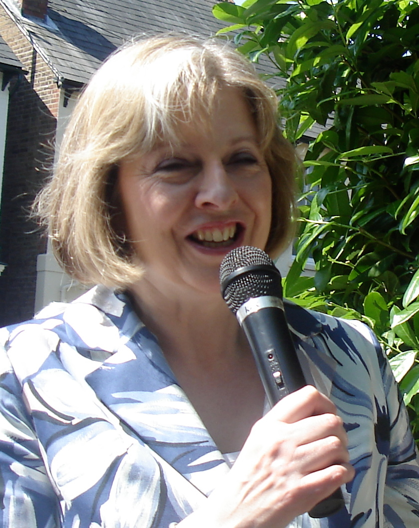 Photo of Theresa May, opening a church fete in 2007